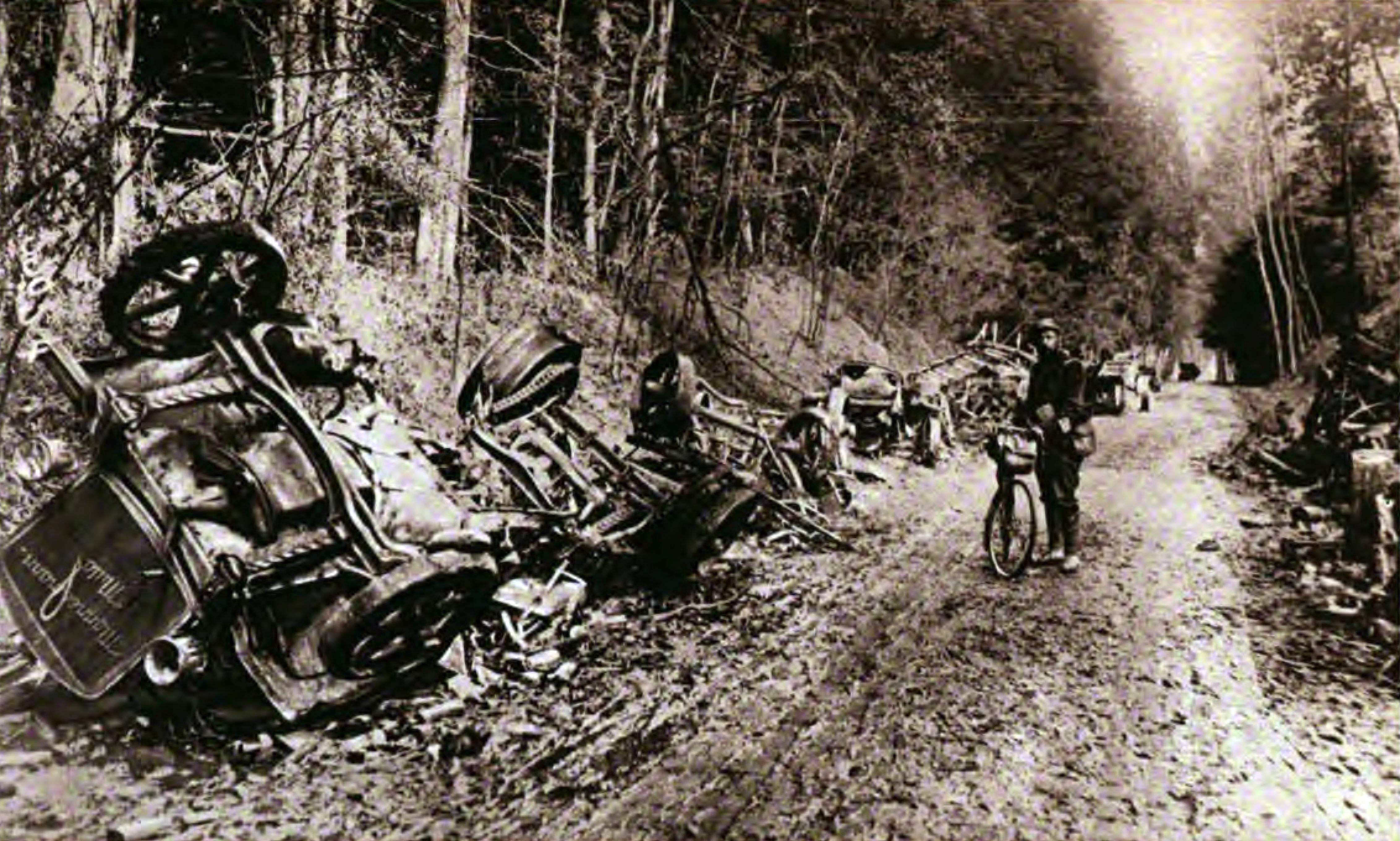 German Motor Convoy Destroyed in the Forest Near Villers-Cotteret, France. From The New York Times Current History of the European War.